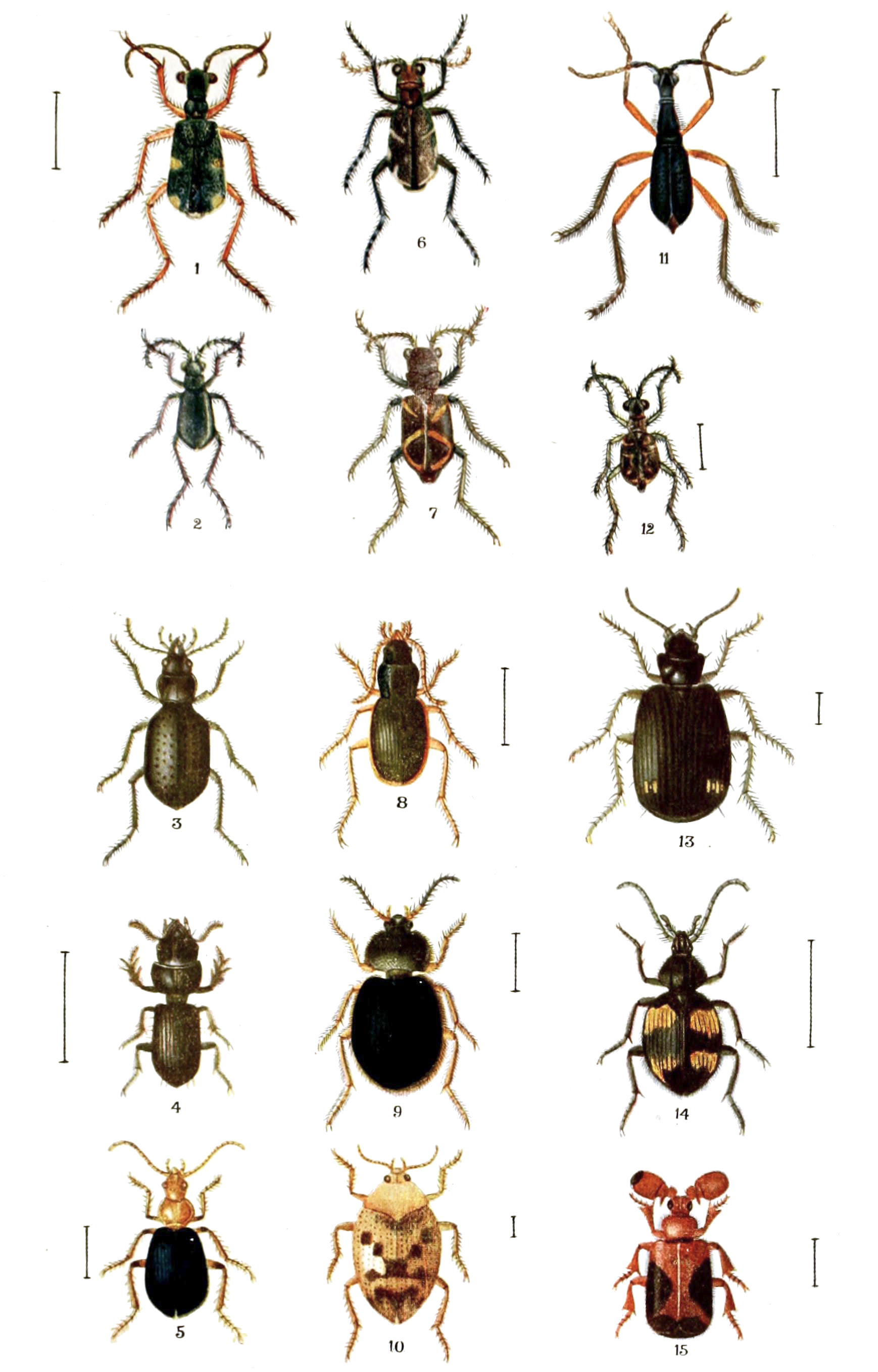 Picture from book Indian Insect Life: a Manual of the Insects of the Plains by Harold Maxwell-Lefroy.